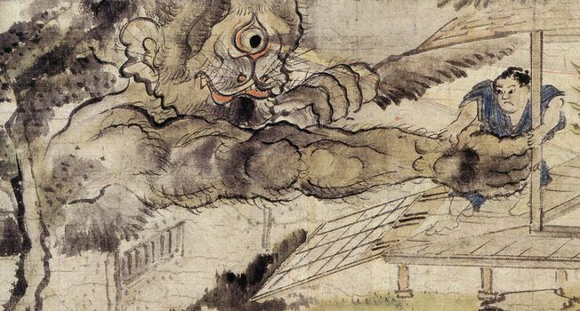 Hitotsume-nyūdō (一つ目入道, a one-eyed giant) from the Inou Mononoke Roku (稲生物怪録)